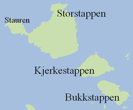 Map of the main Gjesvaerstappan islands